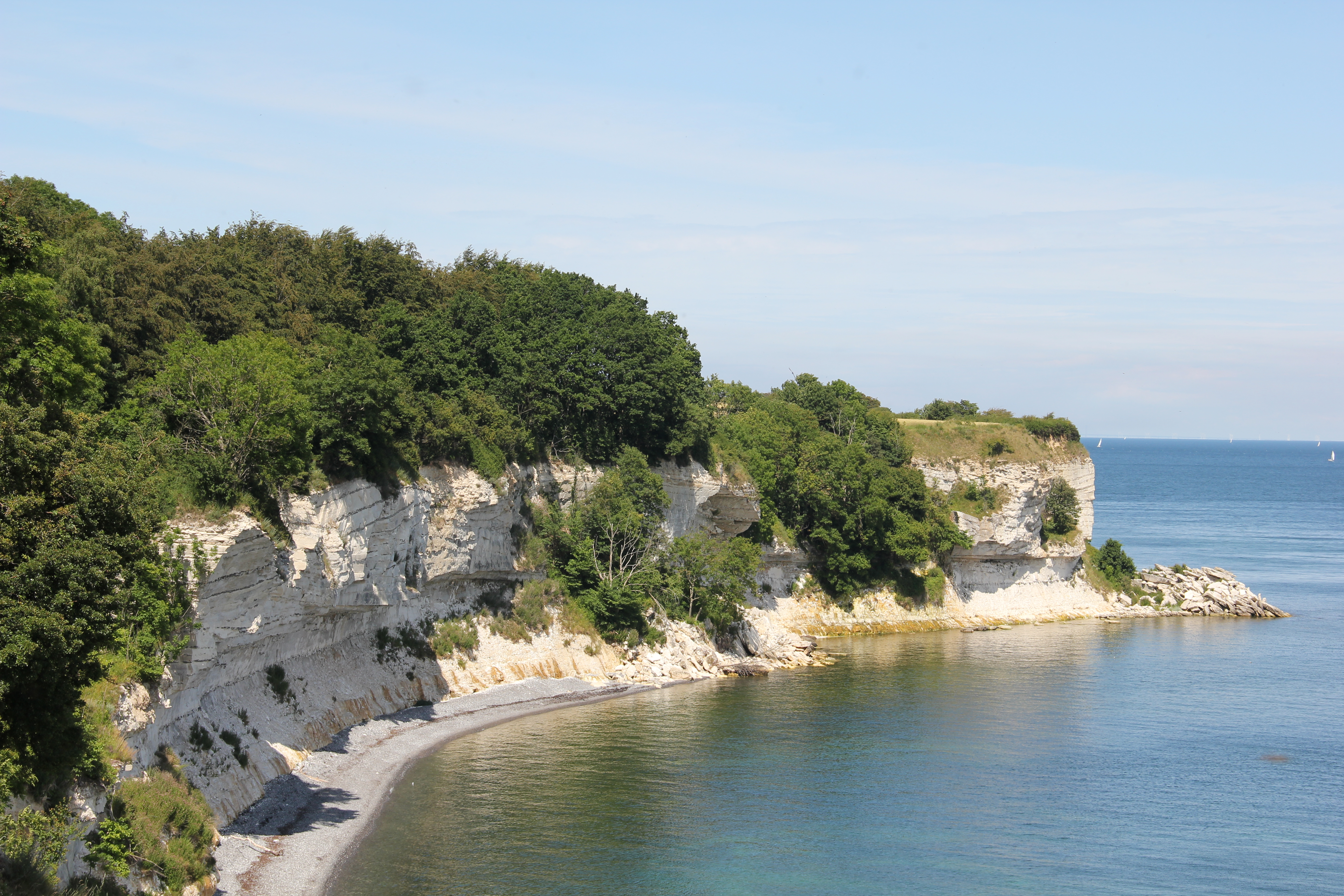 Stevns Klint seen from Højerup Church on July 10, 2019